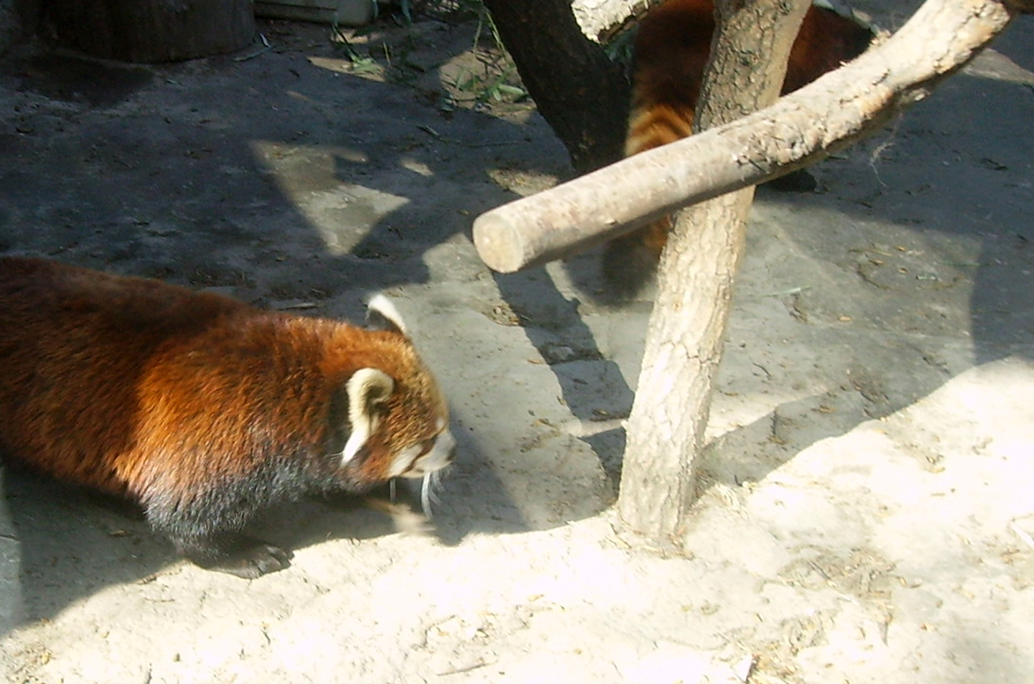 Red panda in a zoo